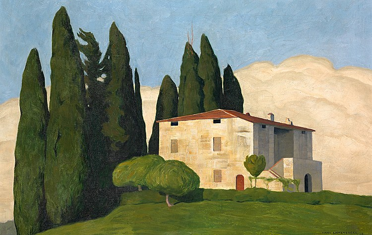 A house in Tuscany (painting by Hans Emmenegger, 1903)